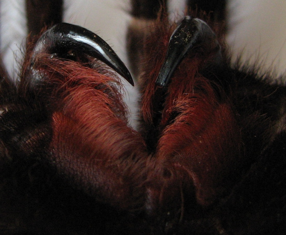 Lasiodora parahybana, adult female, chelicerae on a molted skin; detail